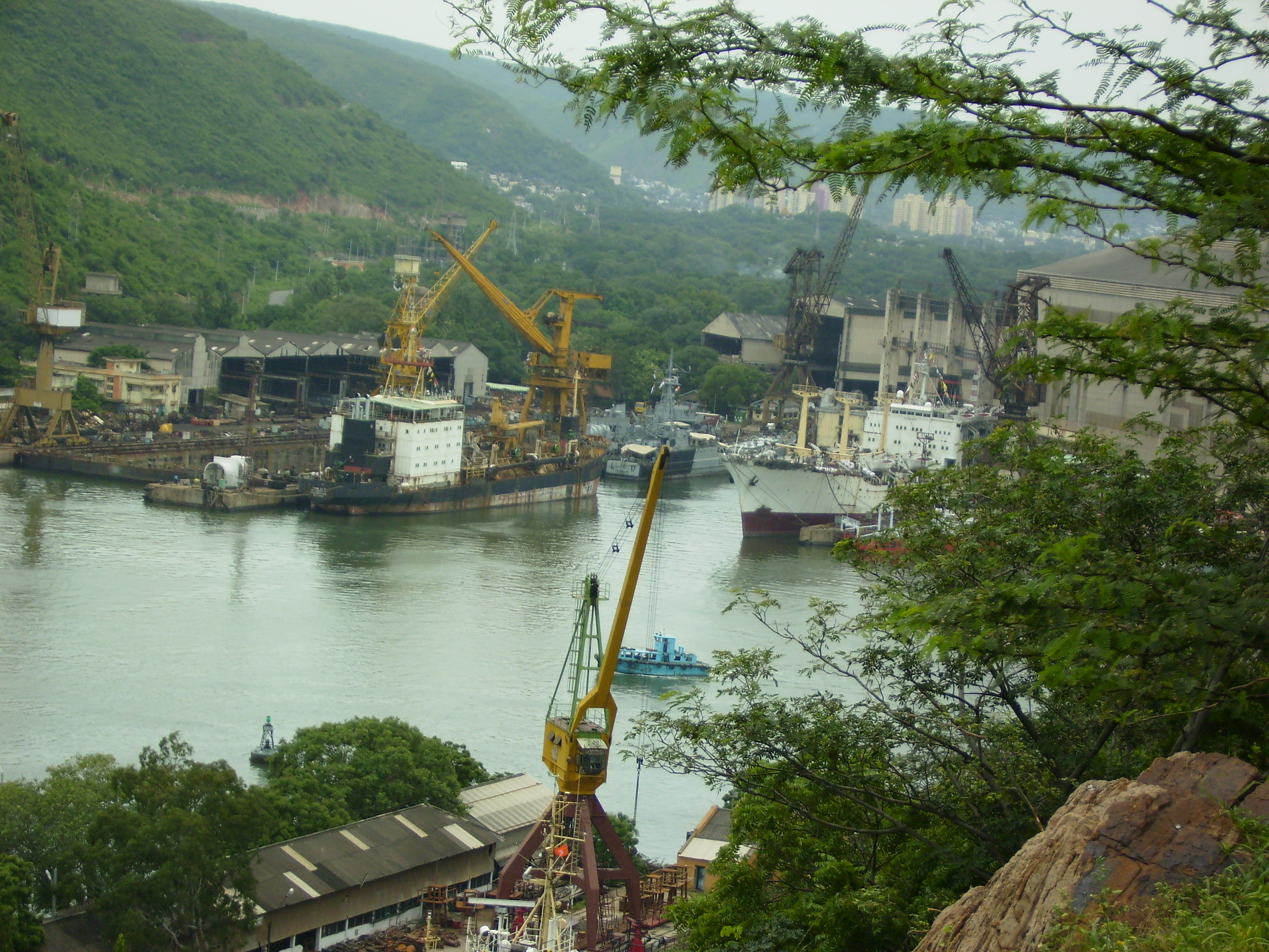 Hindustan Shipyard in Visakhapatnam.